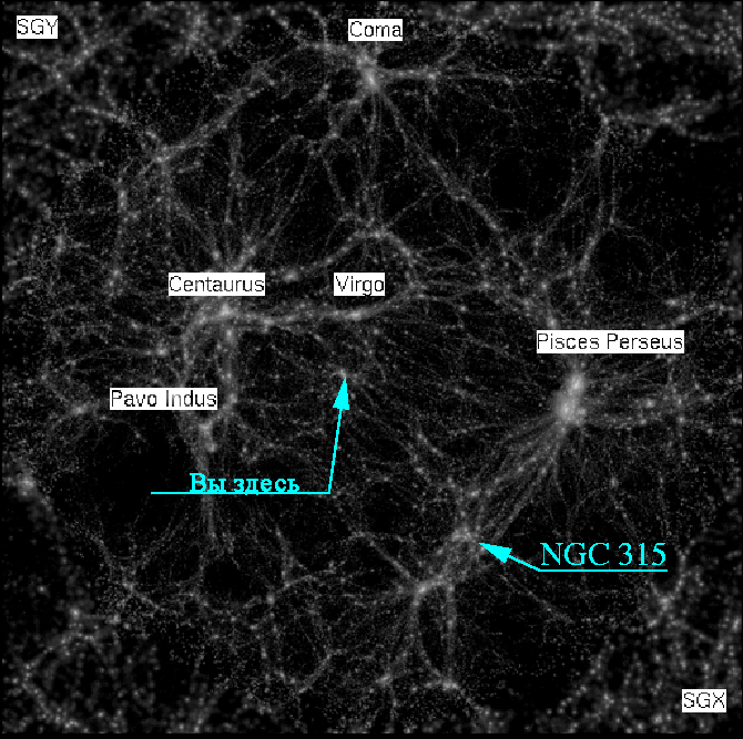 The present day dark matter distribution in a slice cut through a simulation of a flat universe with cosmological constant. The slice has a side length of 520 million light years, and a thickness of 100 million light years. It contains the so-called "supergalactic plane". The major nearby clusters, like Coma, Virgo, Perseus, are labelled.